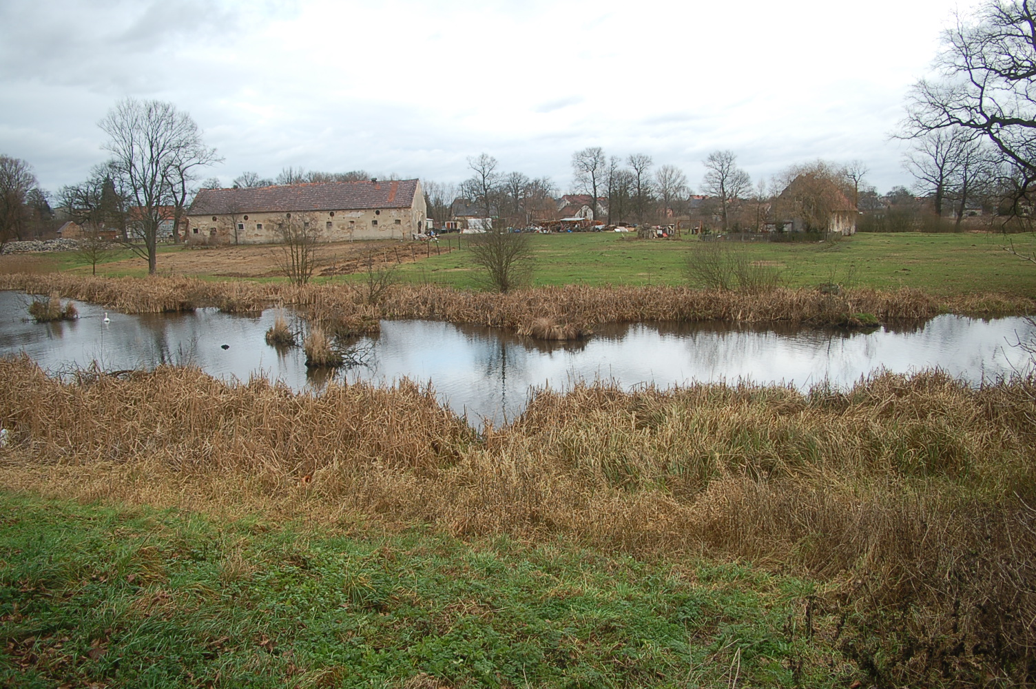 Castle Ilva (Thietmar 1000) in Szprotawa POLAND